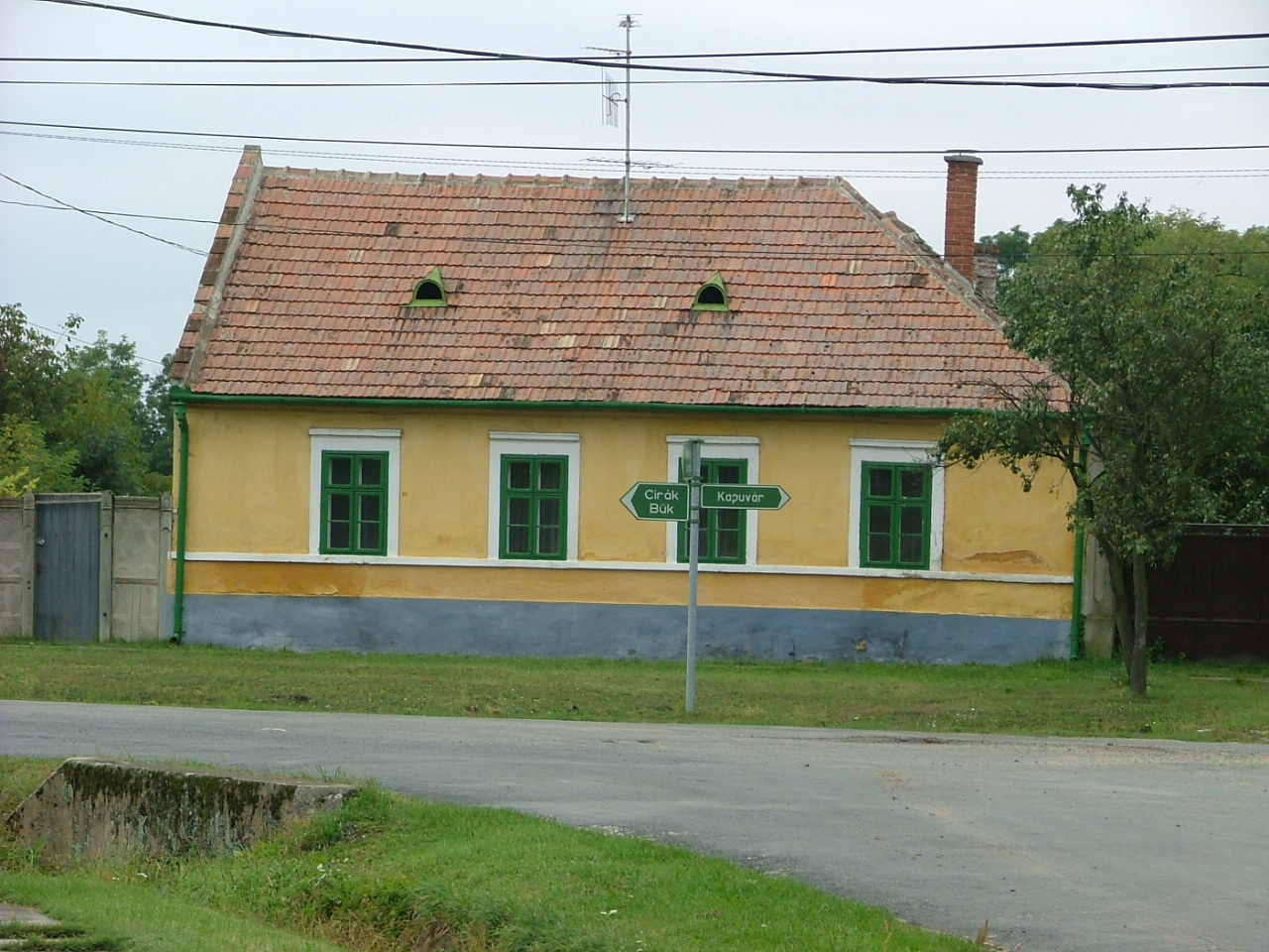 Crossroads in Gyóró